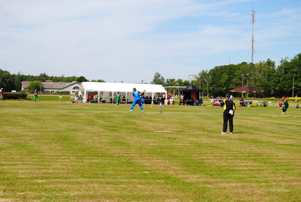 ICC Event 2012 Tallinn, Hippodroom